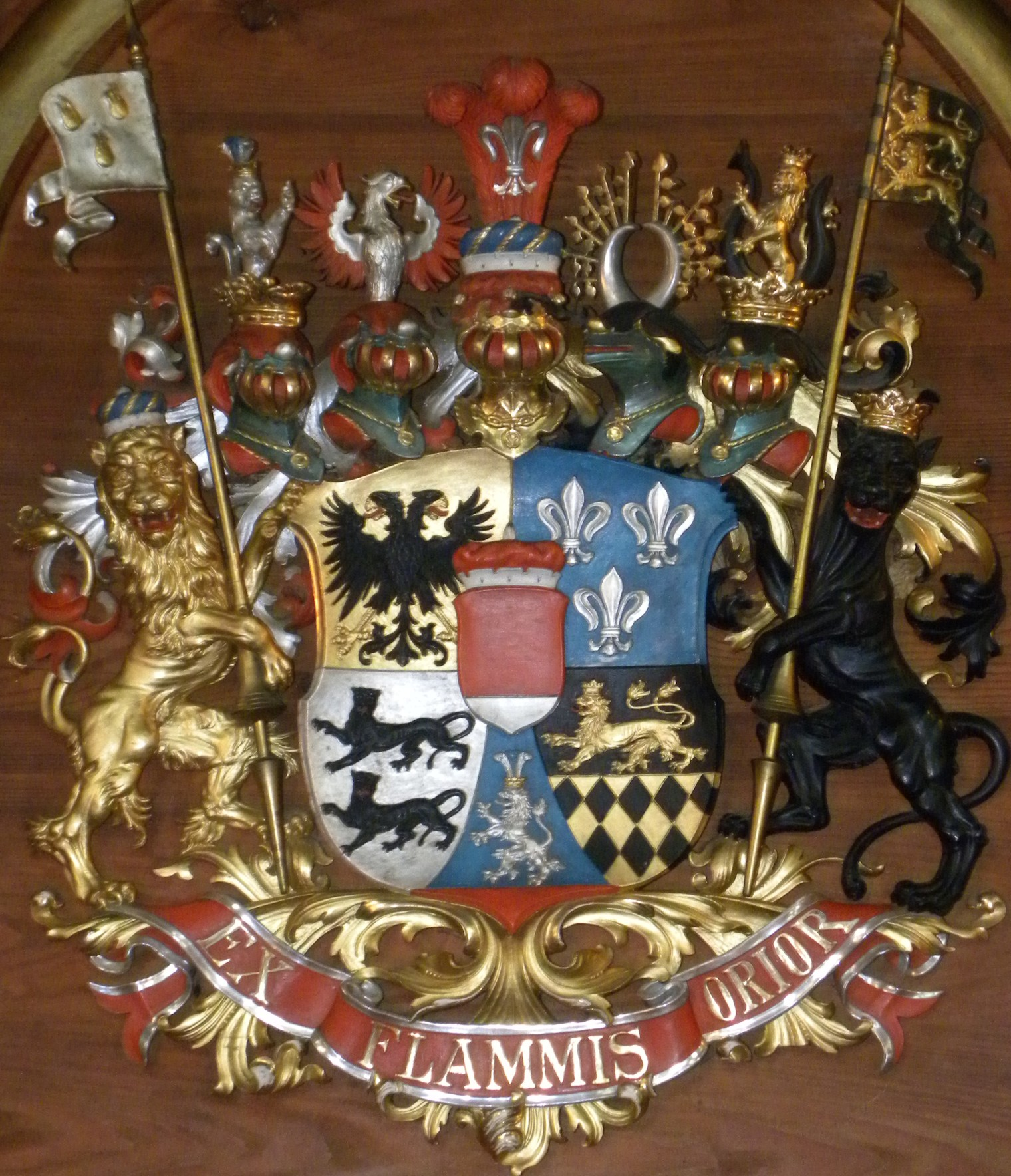 Coat of arms of Karl Christian Kraft von Hohenlohe-Oehringen. Patronage bank in presbytery of St. Anne's Church, Tatranská Javorina, Slovakia.